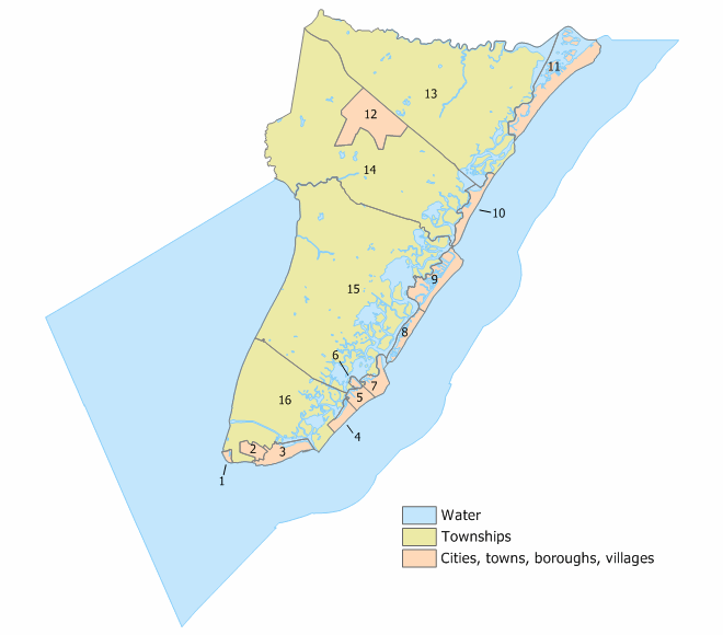 Cape May County, New Jersey Municipalities